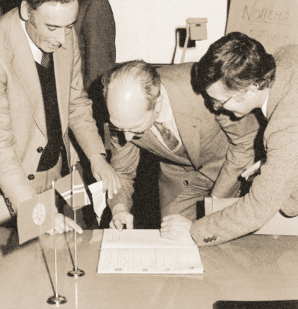 Norema foundation